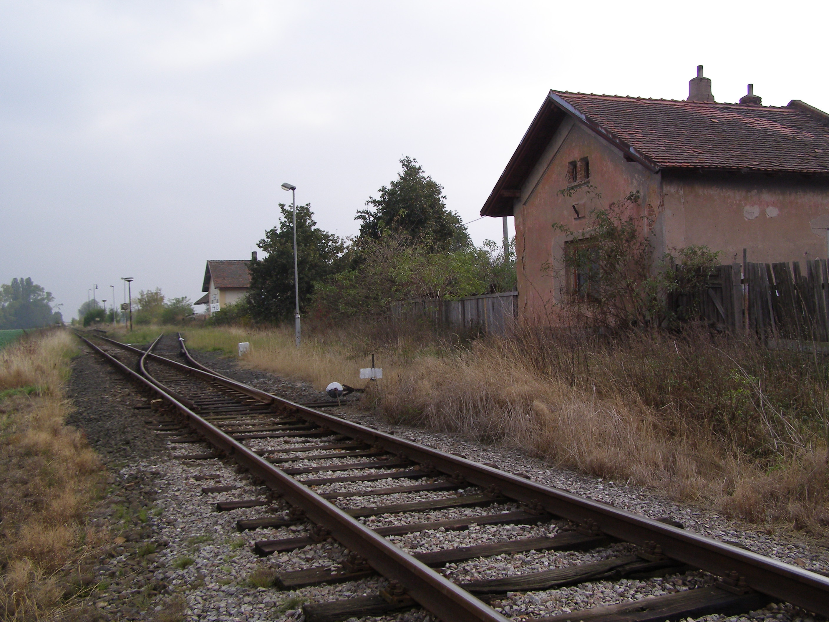 Polerady nad Labem - rail station